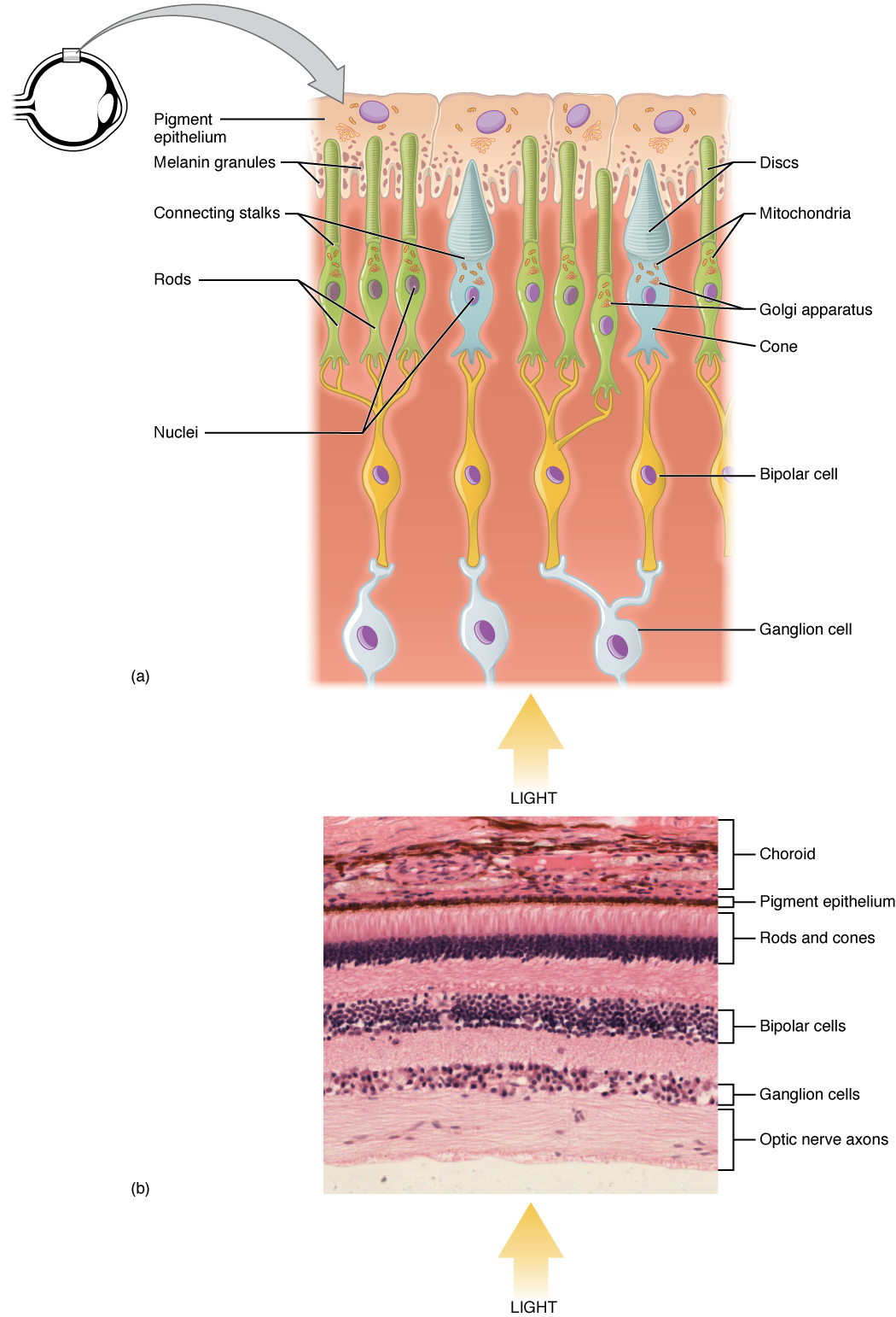 Illustration from Anatomy & Physiology, Connexions Web site. Jun 19, 2013.